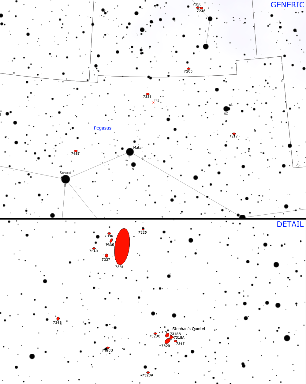 Map of Stephan'a Quintet